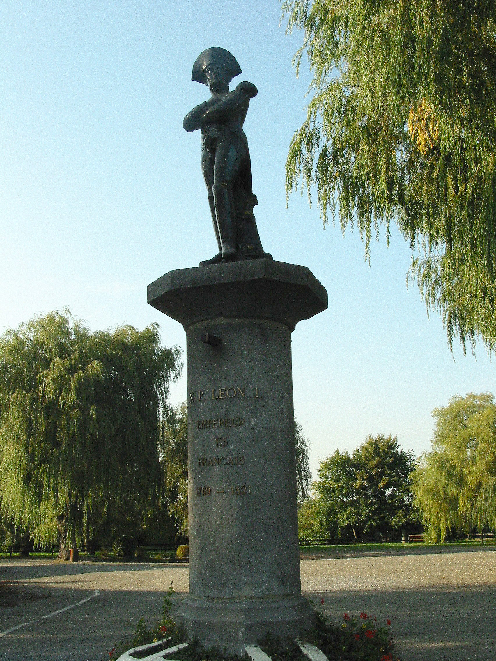 Waterloo (Belgium), bronze Napoleon statue standing next to the "Bivouac de l'Empereur" inn.